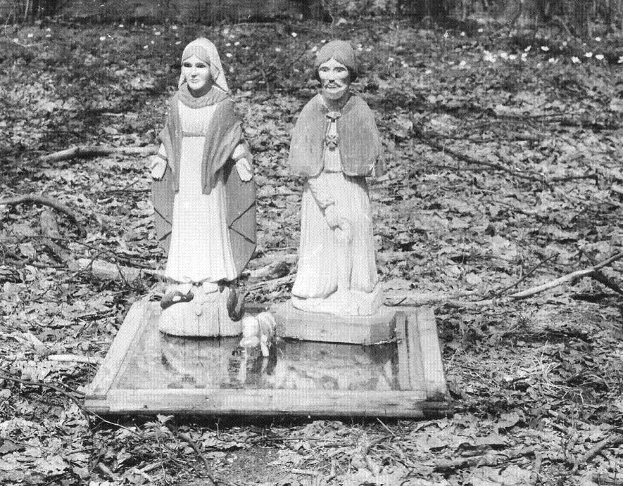 Žutautų Medsėdžiai cemetery, Kretinga district, Lithuania